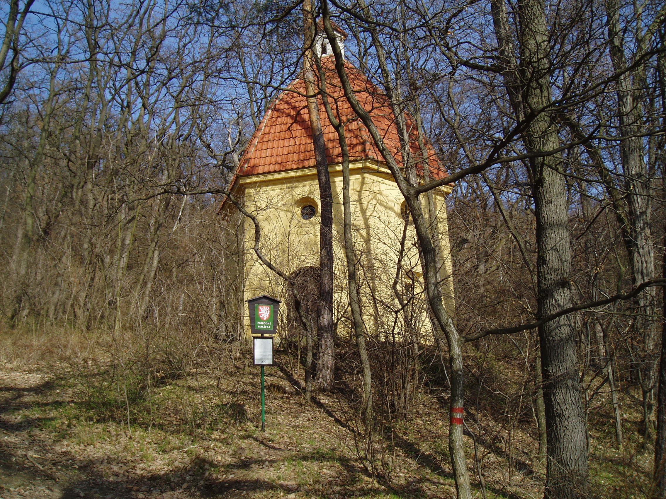 Chapel of St. John the Baptist near Kamýk, Litoměřice District, Czech Repuvlic